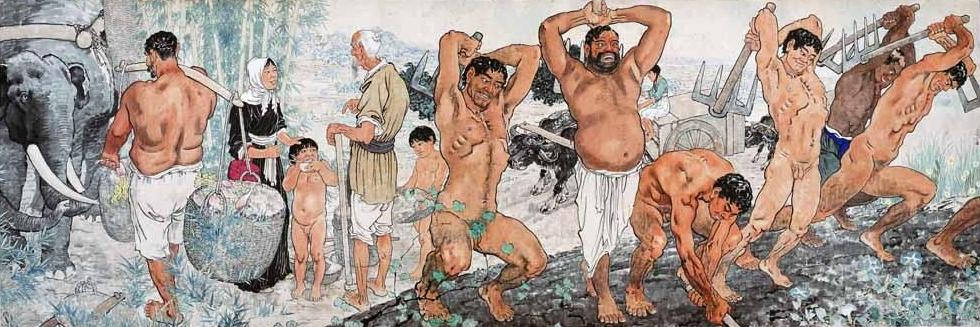 Xu Beihong, traditionnal chinese painting, yugongyishan